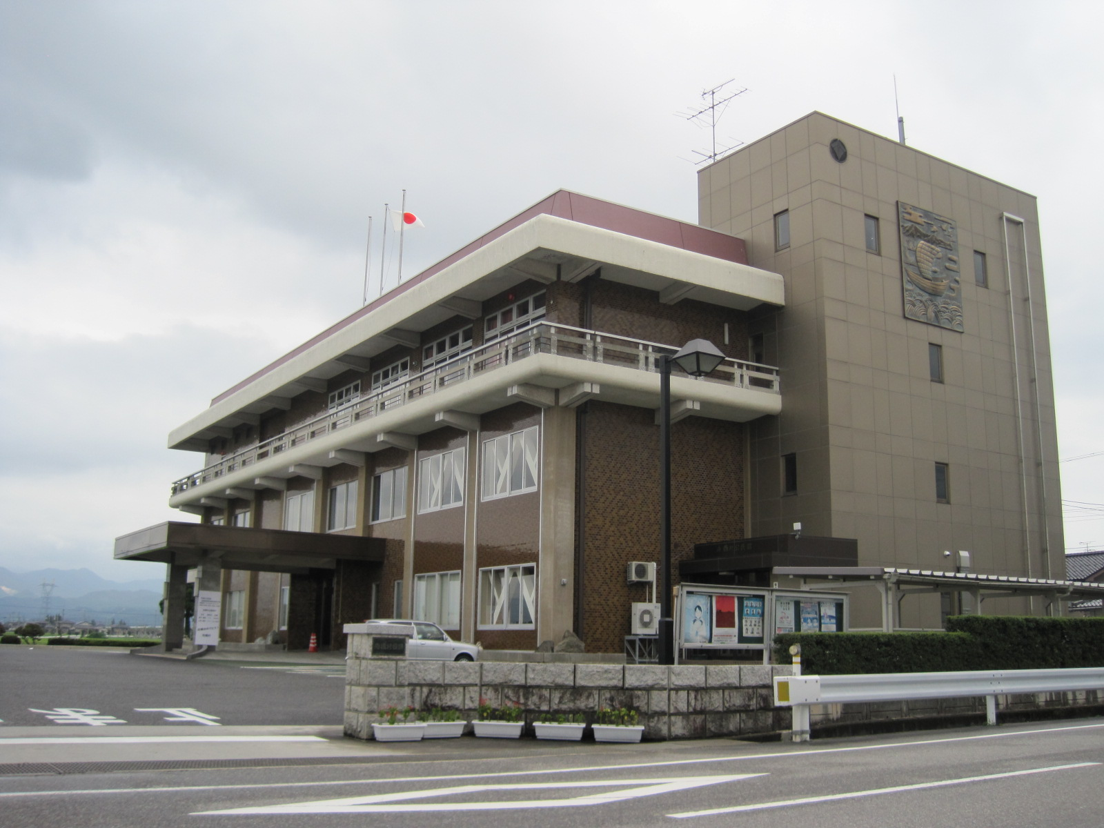 Funahashi Village Hall (Funahashi village, Toyama prefecture)